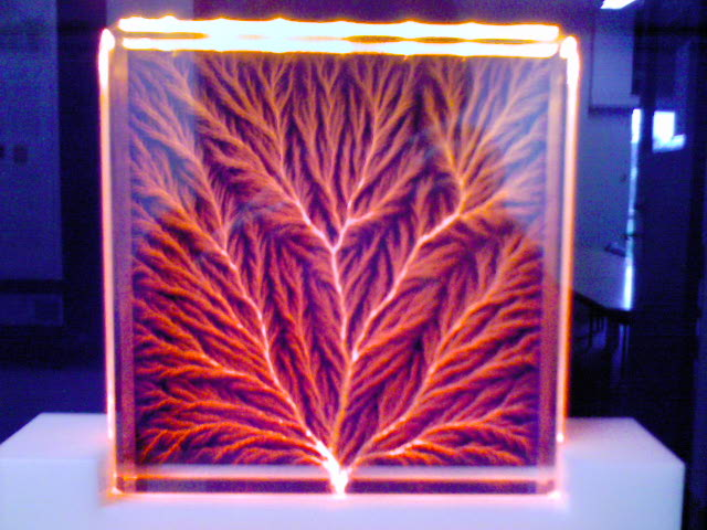 Something about electron beams and stuff. Found in jcmb, king's buildings